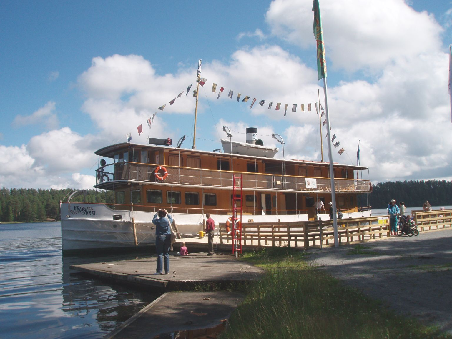 Steamer SS Heinävesi